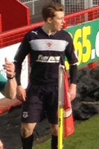 Luke Freeman of Stevenage taking a corner kick.